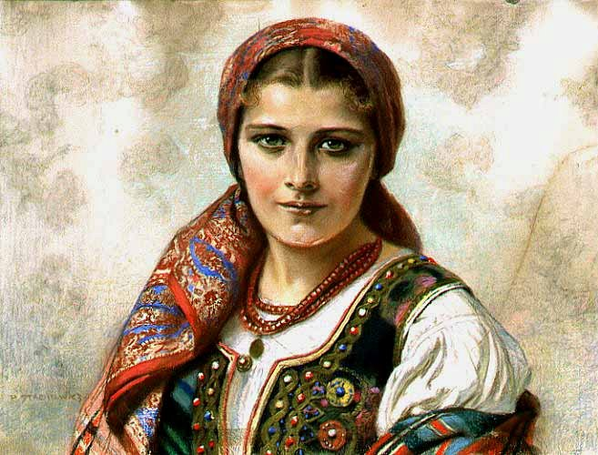 Piotr Stachiewicz - Polish girl